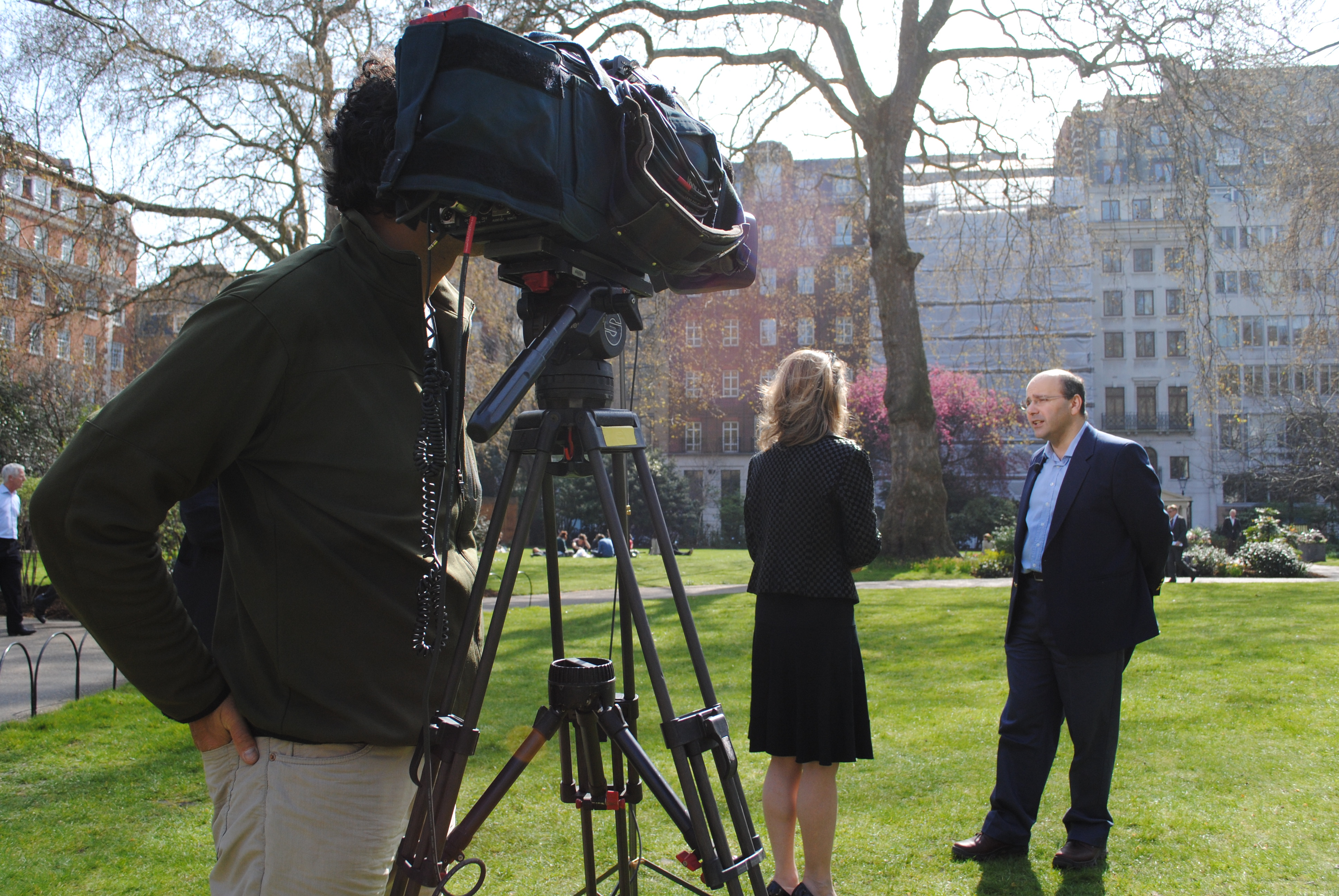 Associate Fellow Ali Ansari speaking to Fox News about Iran